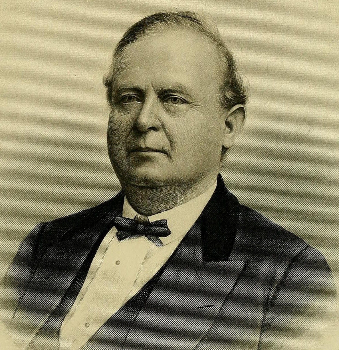 Samuel Locke Sawyer, Missouri Congressman